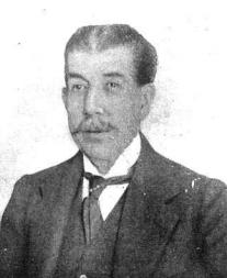 Spanish Politician Francisco Bergamín